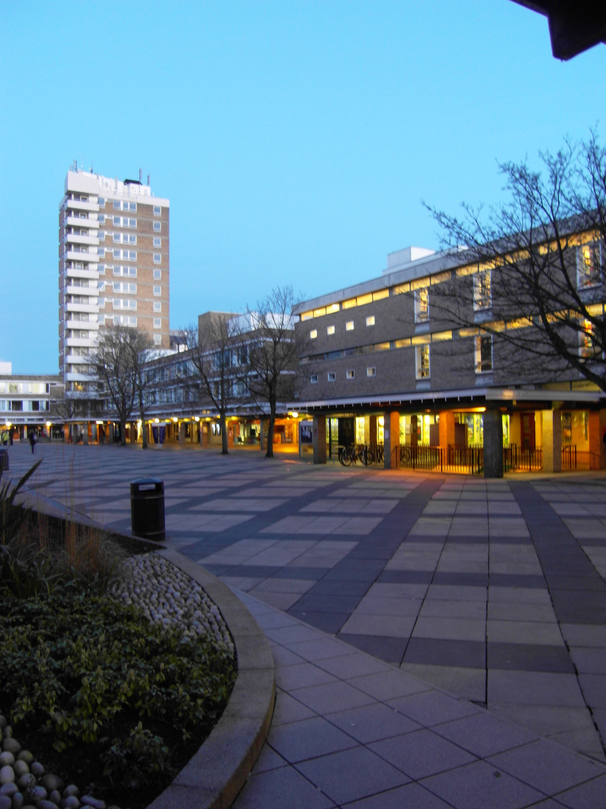 Central courtyard of Lancaster University